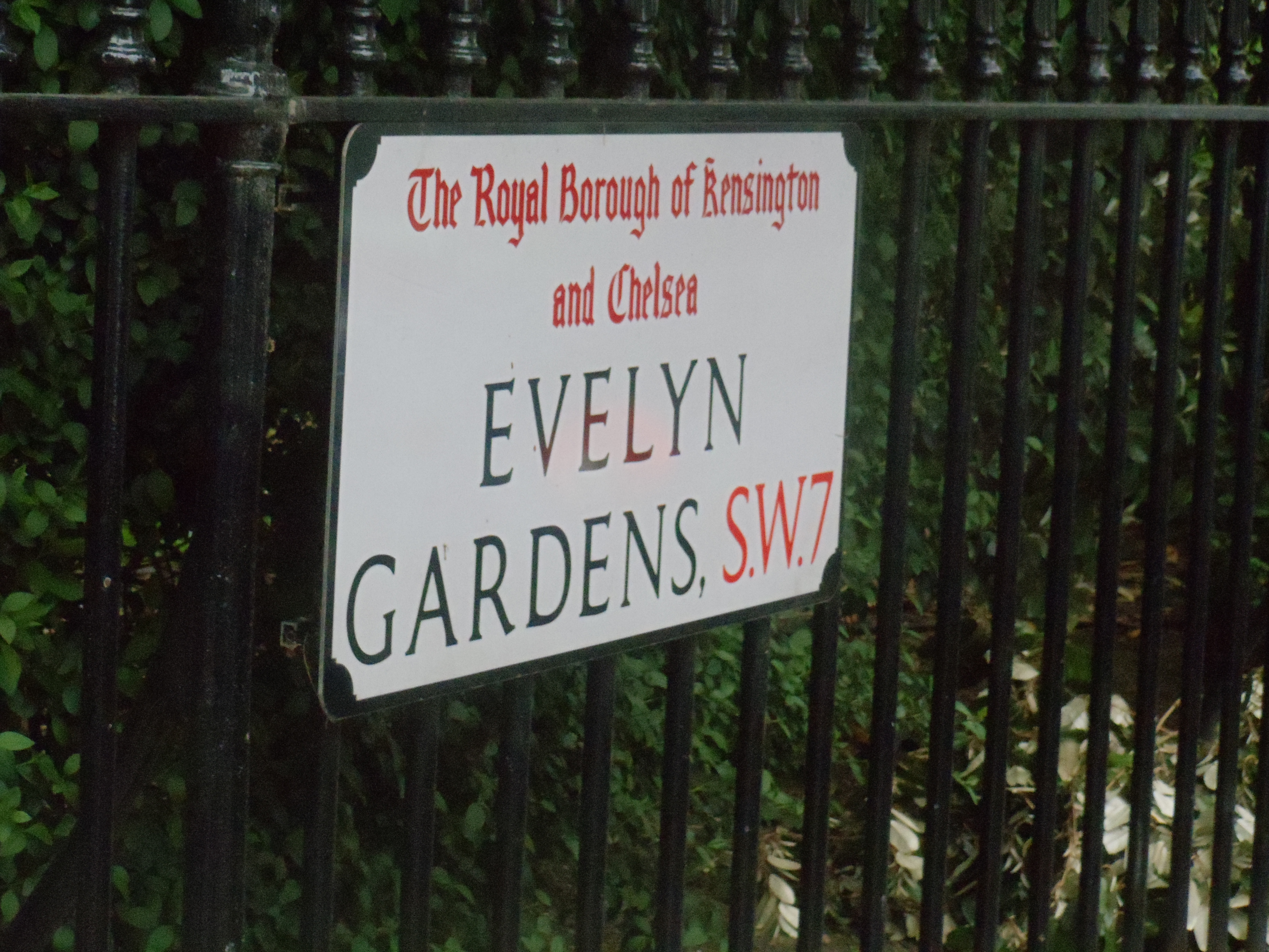 Sign of Evelyn Square in London